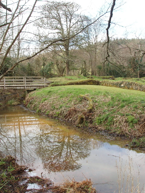 Penhallam Manor moat with bridge. The wooden bridge is in the location of the drawbridge into the manor house in the 13th Century. Information boards and Pastscape from English Heritage tell us the moated manor was built around 1180, more was built up to about 1300, the manor was abandoned from about 1500. The line of the walls has been reconstructed as grass covered mounds, and the moat has water round three sides of the site. See also 23988 and 505228.